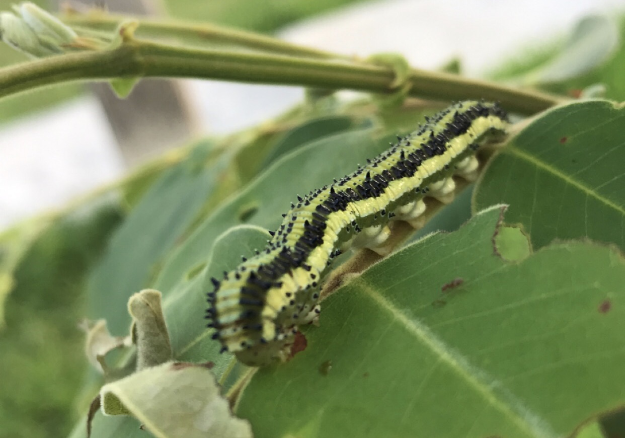 An image of the larvae of an Orange-Barred Sulphur Butterfly (Phoebis Philea) on a host plant of Cassia Bakeriana taken in Miami, Florida on the morning of April 15, 2019.